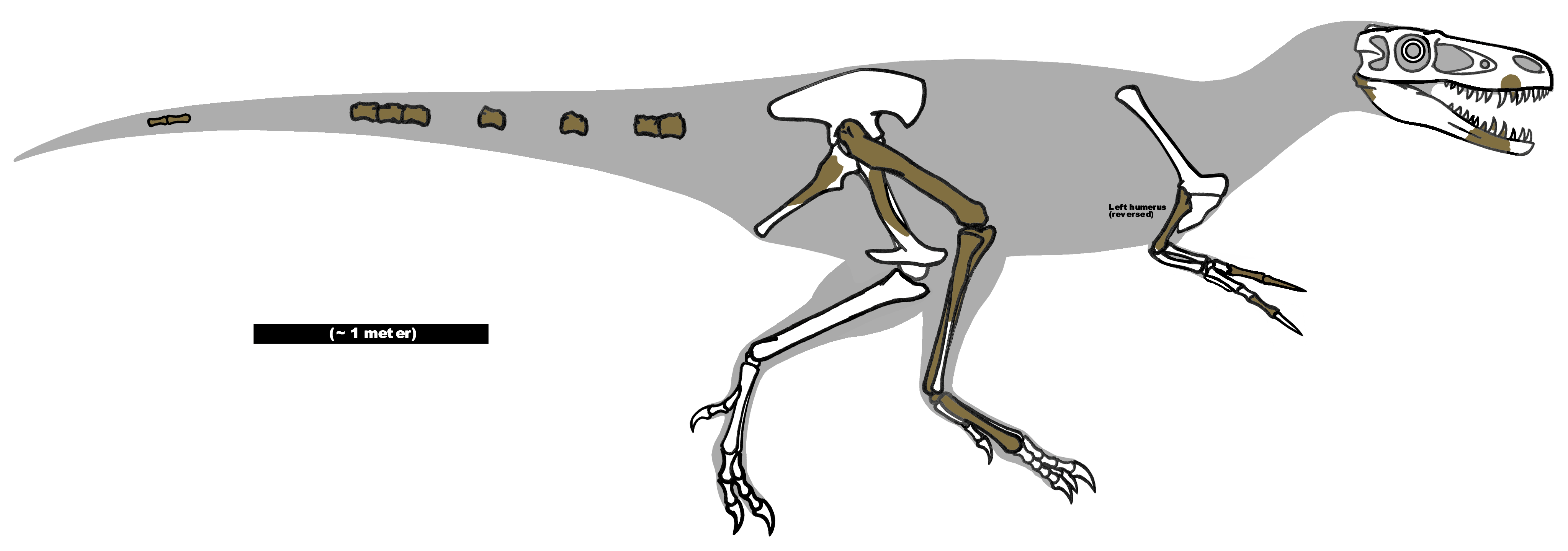 Diagram over the remains after the theropod dinosaur Dryptosaurus aquilunguis (Originally Laelaps aquilunguis (Cope, 1866)). Based on the specimens AMNH 2438 and ANSP 9995. [1] and [2]; skeletal diagram (after Carpenter, Baird et.al., 1997). Manual ungual and partial mandible with teeth. [3] and [4]; Manual ungual.